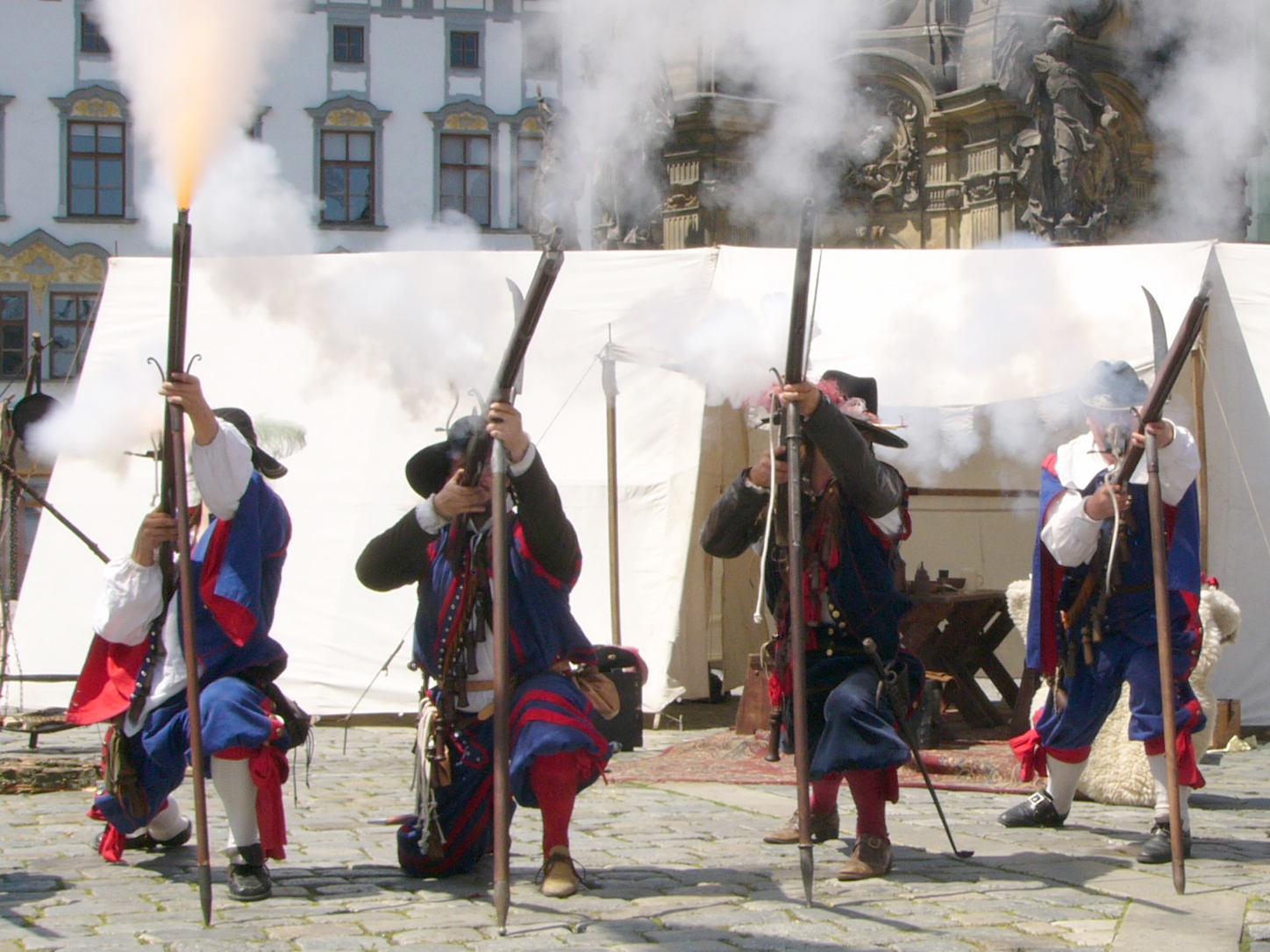 Musketeers are firing from muskets. Reconstruction (historical reenactment) from period of Thirty Years' War battle.